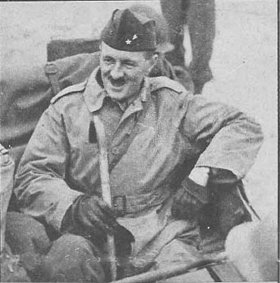 From the first page of the leaflet shown. Cropped, rotated, healed to remove creases and converted to greyscale with GIMP.